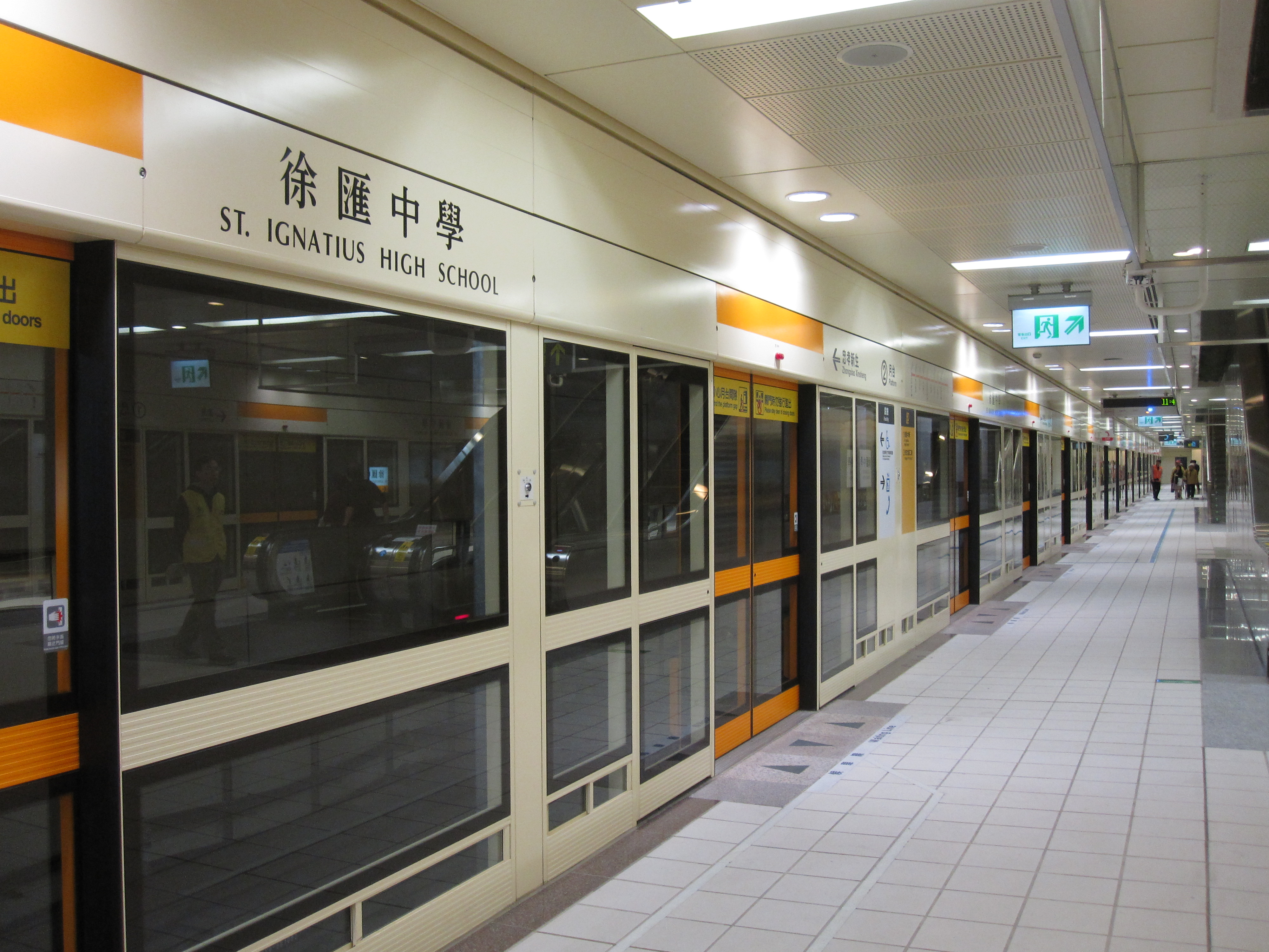 Saint Ignatius High School Station Platform 2 中文（台灣）: 徐匯中學車站第二月台